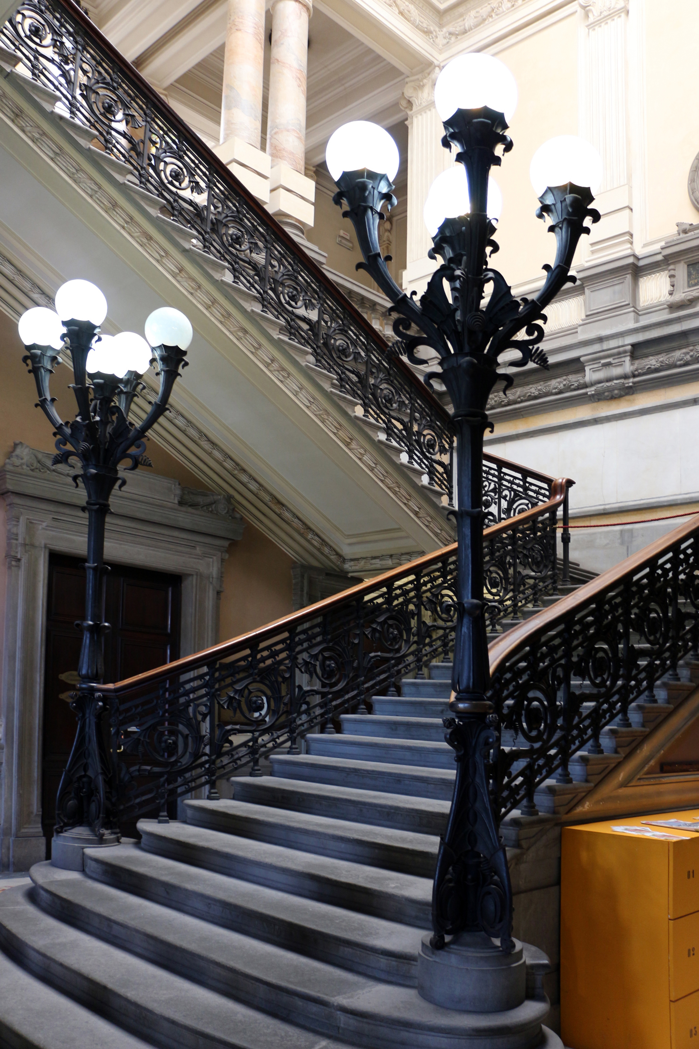 Palazzo del Comune (Montecatini Terme)